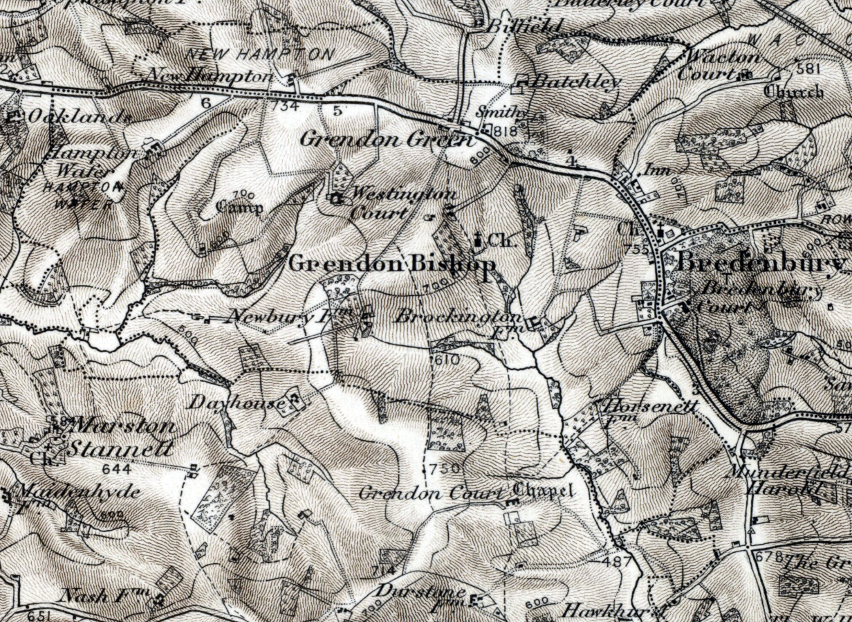 1897 Ordnance Survey map of Grendon Bishop in Herefordshire, England. Reproduced with the permission of the National Library of Scotland.[1]